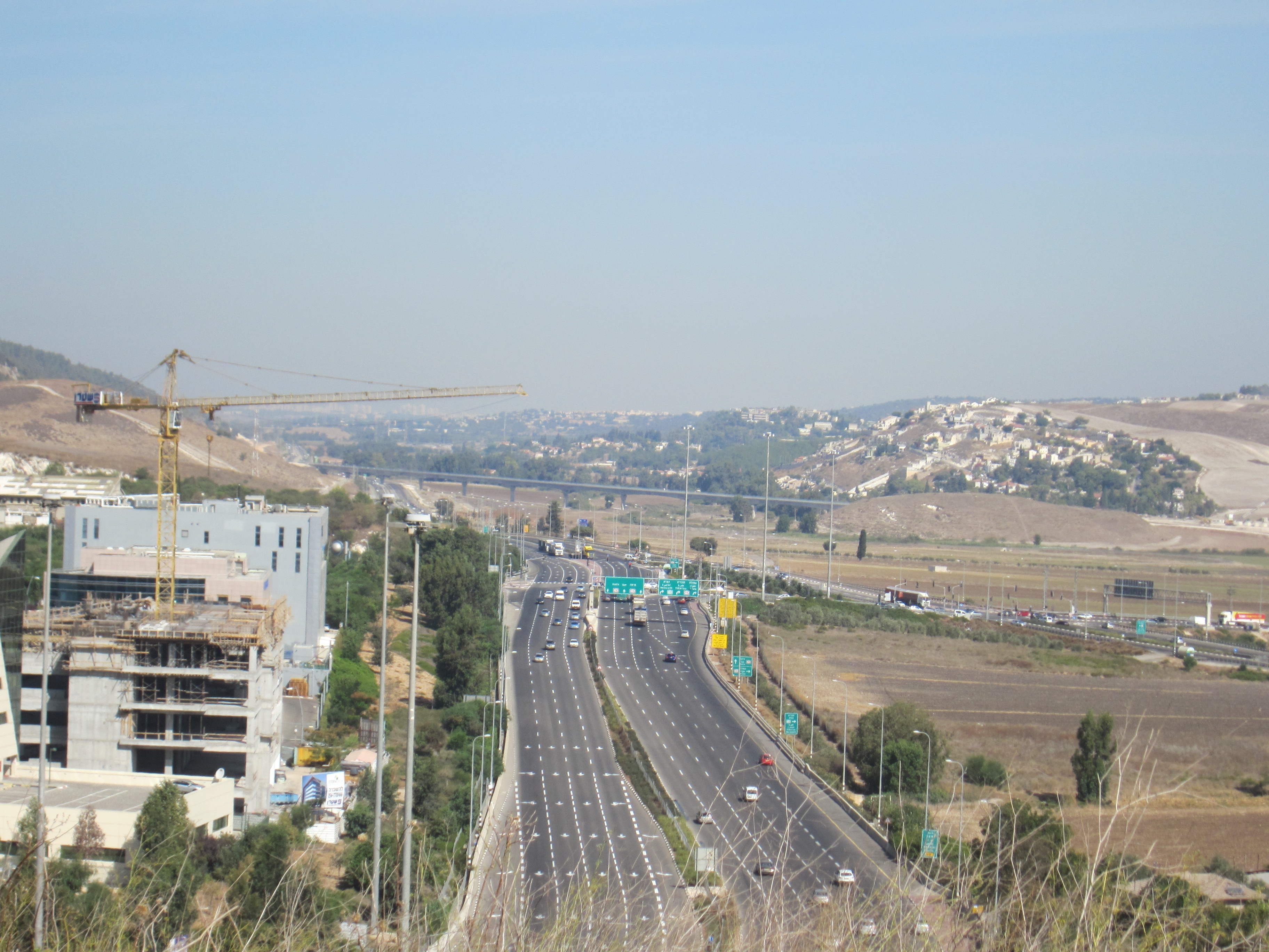 Tel Yokneam